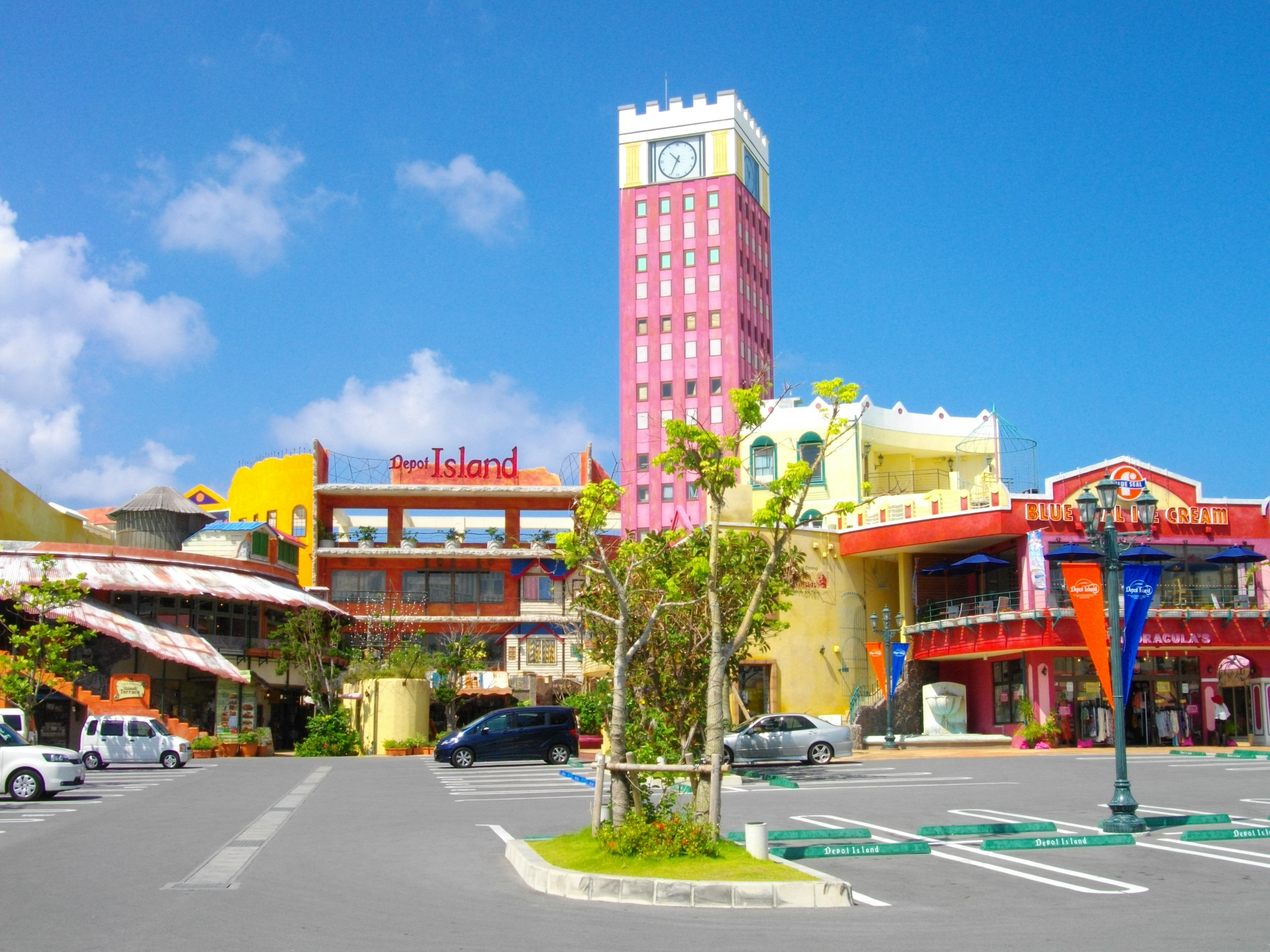 Mihama Town Resort American Village